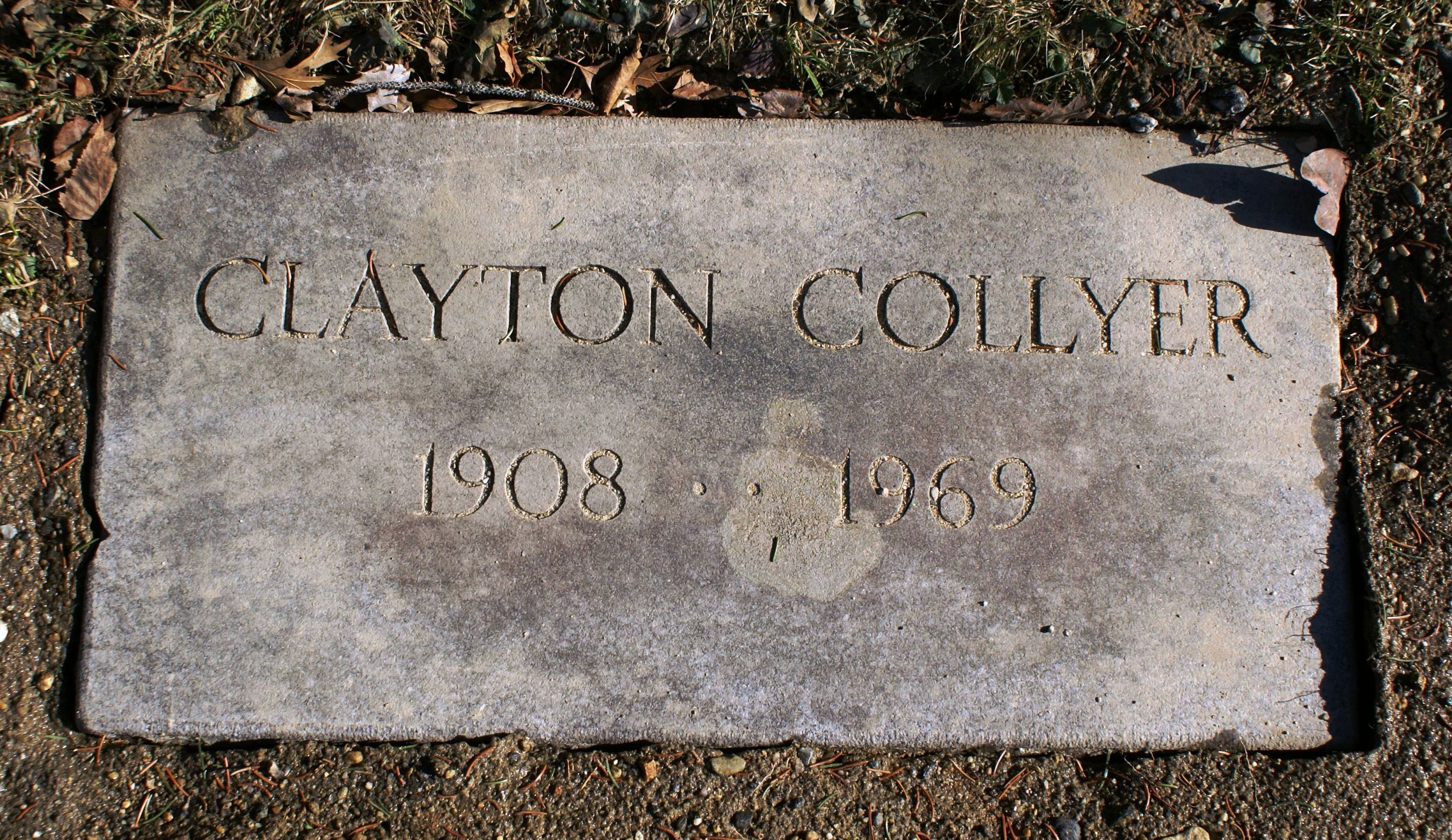 The footstone of Clayton Collyer